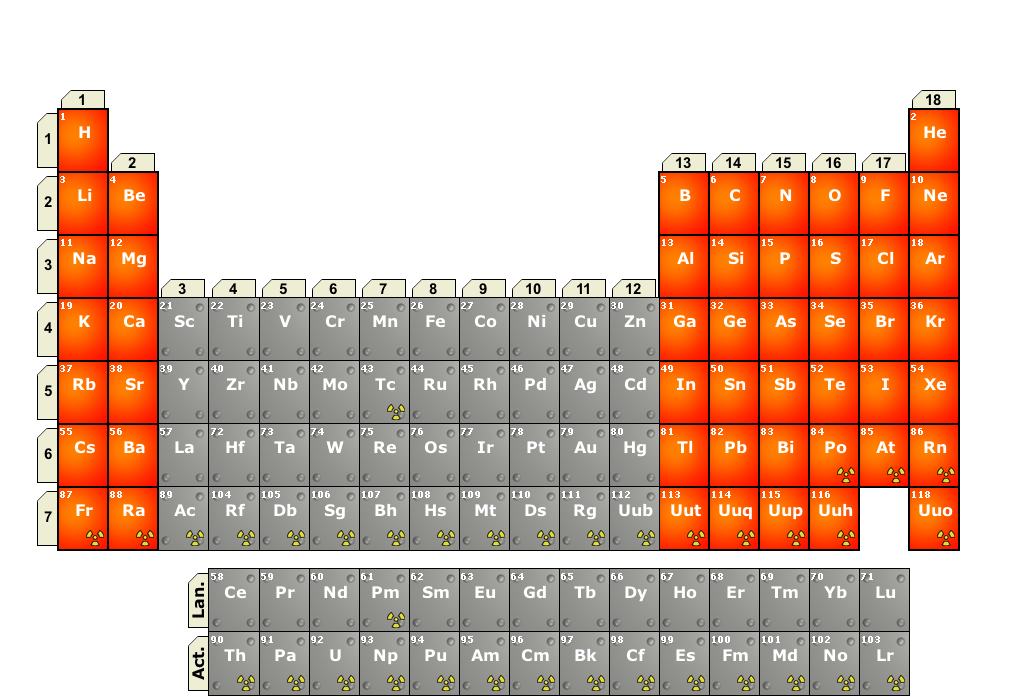 Periodic System of the Elements. Note: Lanthanum and Actinium are often placed under lanthanoids and actinoids. Red color indicate elements of main groups.